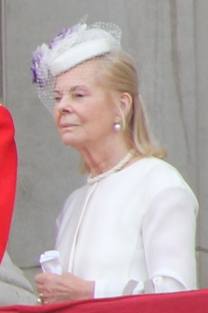 The Duke and Duchess of Kent on the balcony of Buckingham Palace, June 2013